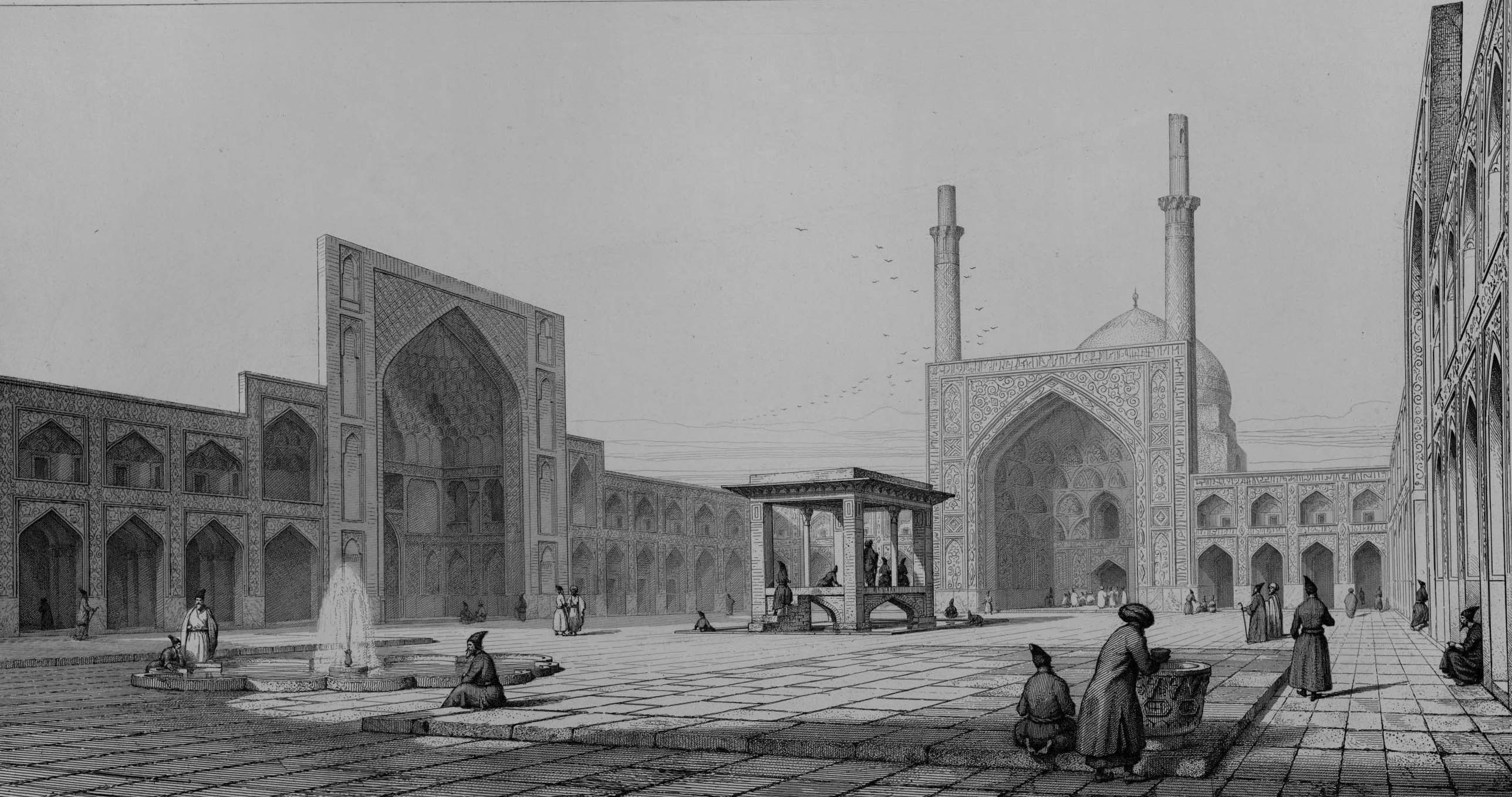 Front Jama mosque